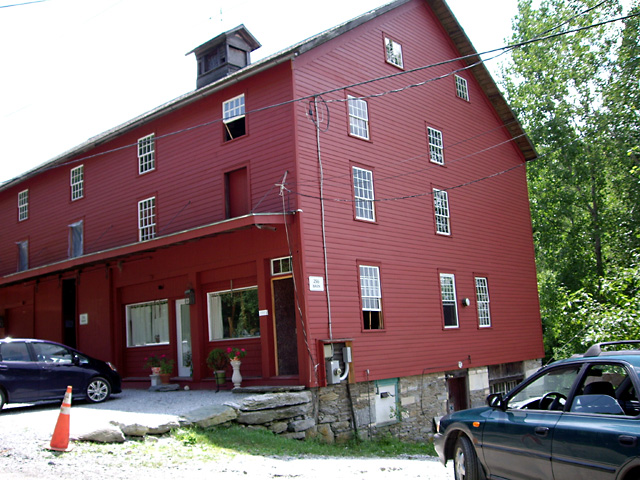 This is the Shaker Barn at the Abode of the Message, a residential, intentional community associated with the Sufi Order International. The Abode's original buildings were built by the South Family of the Mount Lebanon Shaker Village community. This is the original Shaker community's horse barn, which was renovated during 2009-2010.